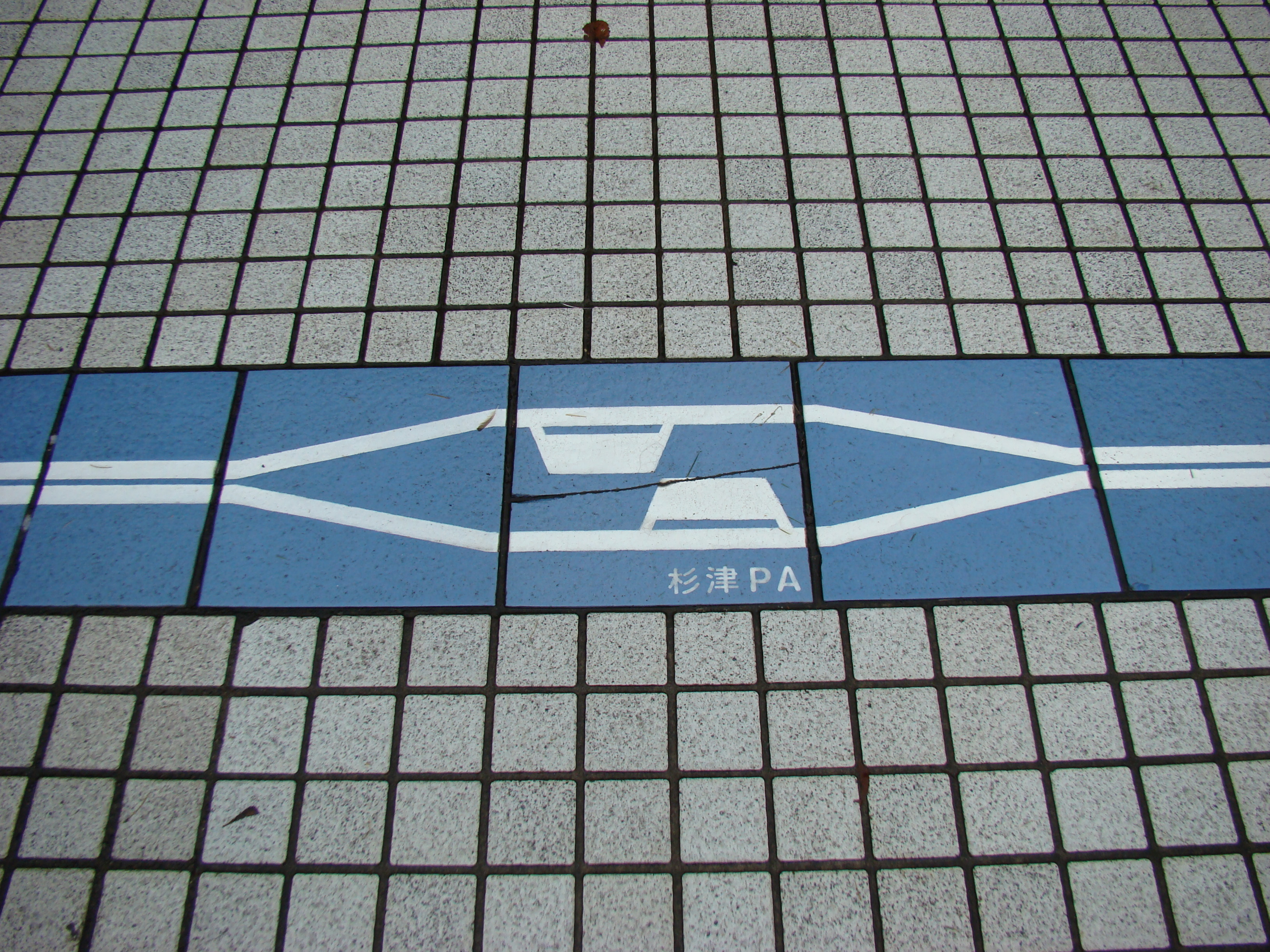 Tiles which show the shape of Suizu Parking Area on the Hokuriku Expressway, installed at Nadachi Tanihama Service Area in Chayagahara, Joetsu City, Niigata Prefecture, Japan